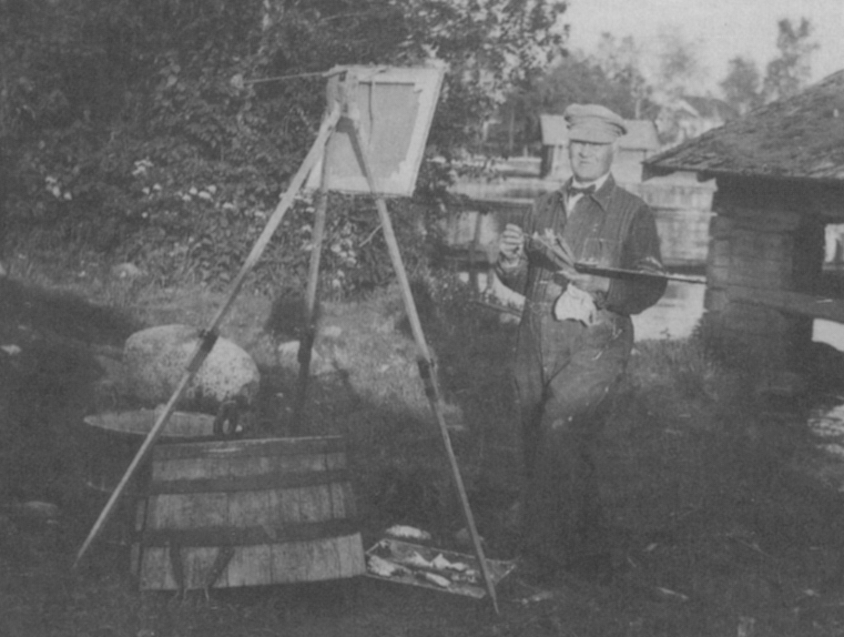 Photograph of the Finnish painter Wilho Sjöström (1873–1944) at work.